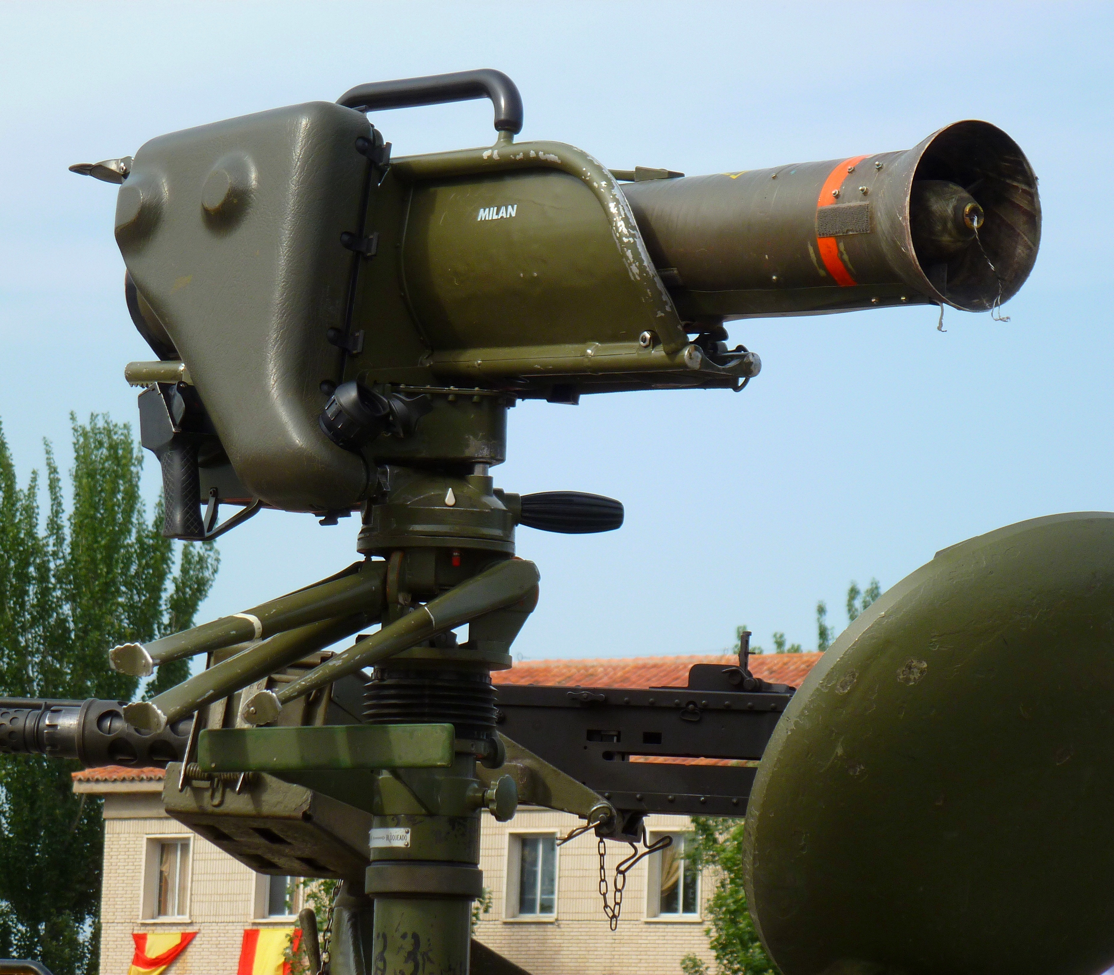 MILAN of the Spanish Army.